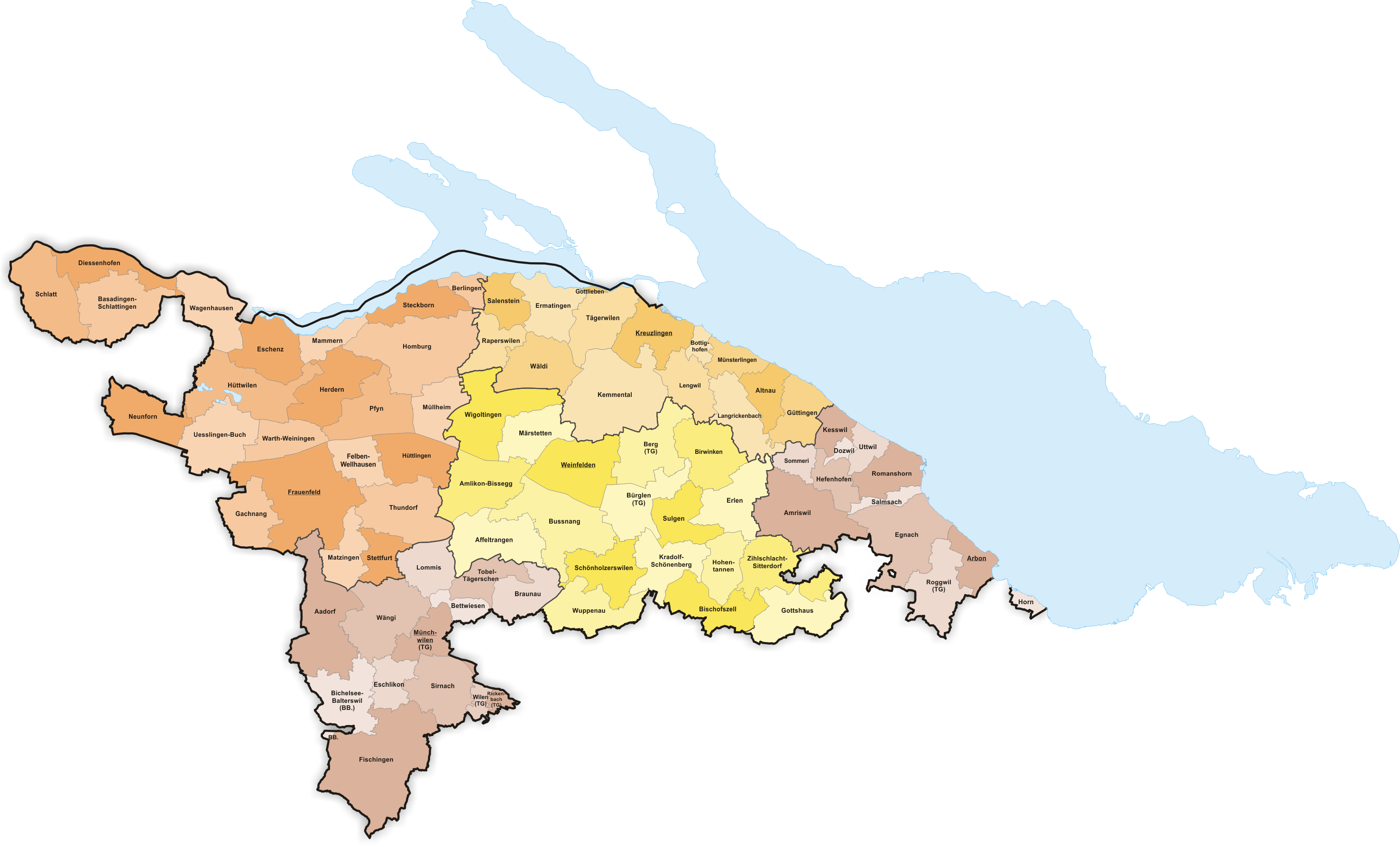 Municipalities in Canton Thurgau